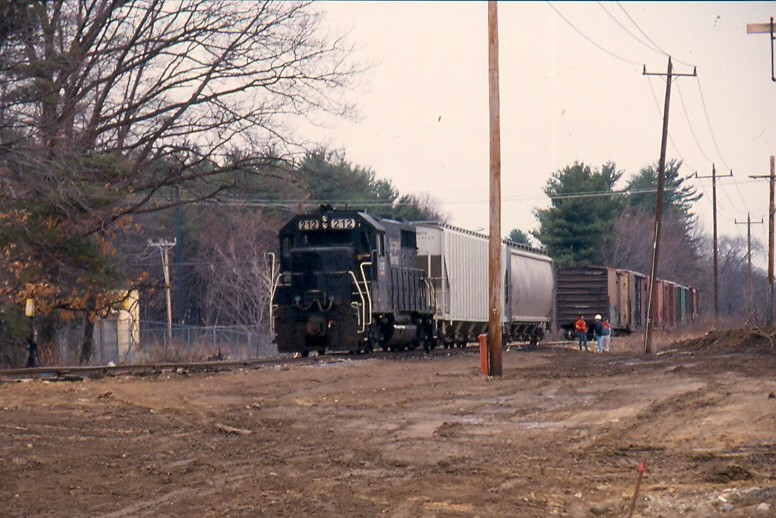 Pan Am #212 on the Manchester & Lawrence branch